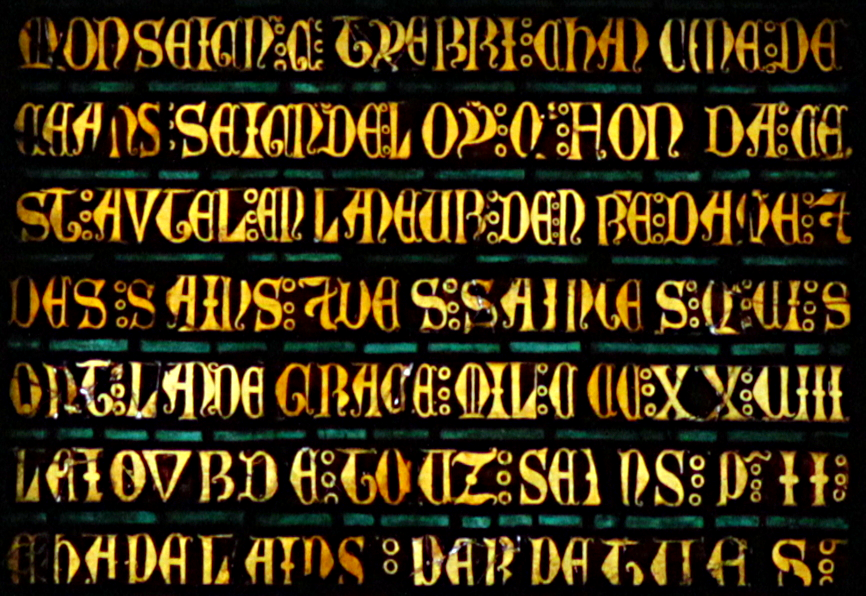 Stained window in Chartres cathedral - fragment. Thierry's inscription